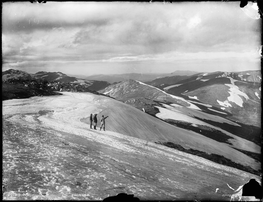 Format: Glass plate negative. Repository: Tyrrell Photographic Collection, Powerhouse Museum Part Of: Powerhouse Museum Collection General information about the Powerhouse Museum Collection is available at Persistent URL: Acquisition credit line: Gift of Australian Consolidated Press under the Taxation Incentives for the Arts Scheme, 1985